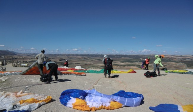 Parapente 2014